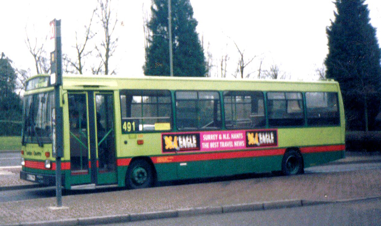 A London & Country bus in Staines bus station, 1998. It is a Dennis Dart/East Lancs EL2000.